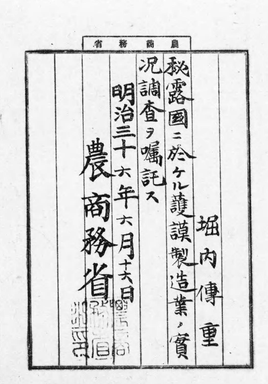 writ of appointment